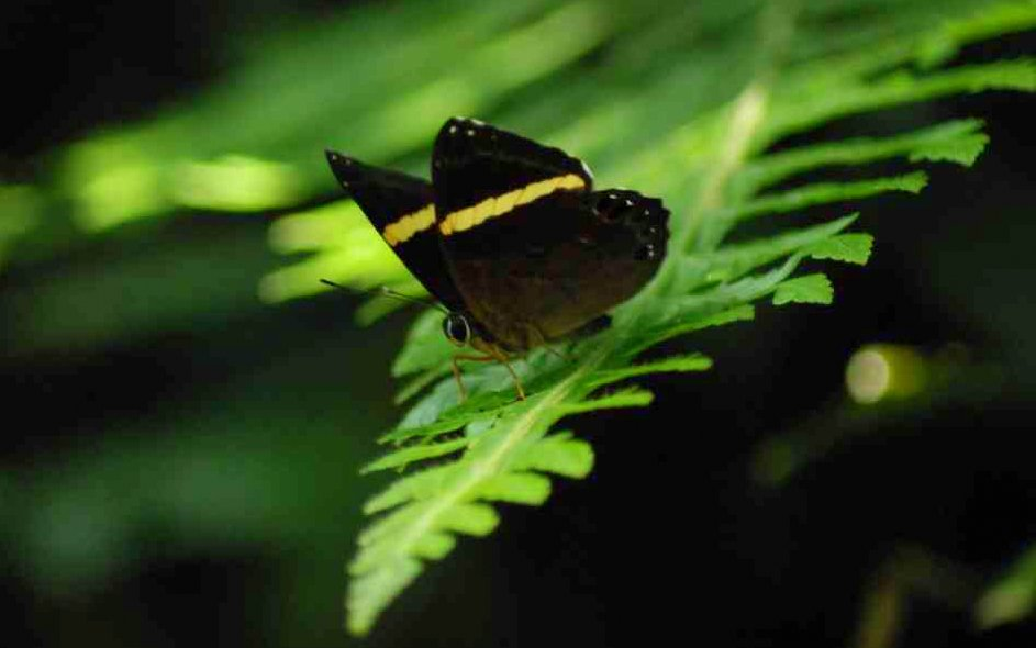 Dark Judy (কোকেয়ারা) , Kolkata, West Bengal, India